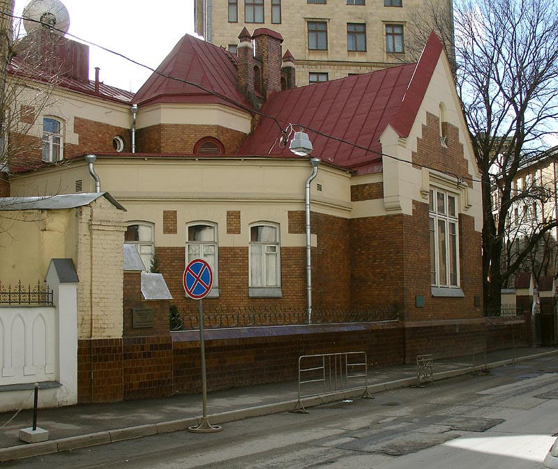 Own house (second of three), by Fyodor Schechtel, Yermolaevsky Lane, Moscow, Russia. Residence of Ambassador of Equador.